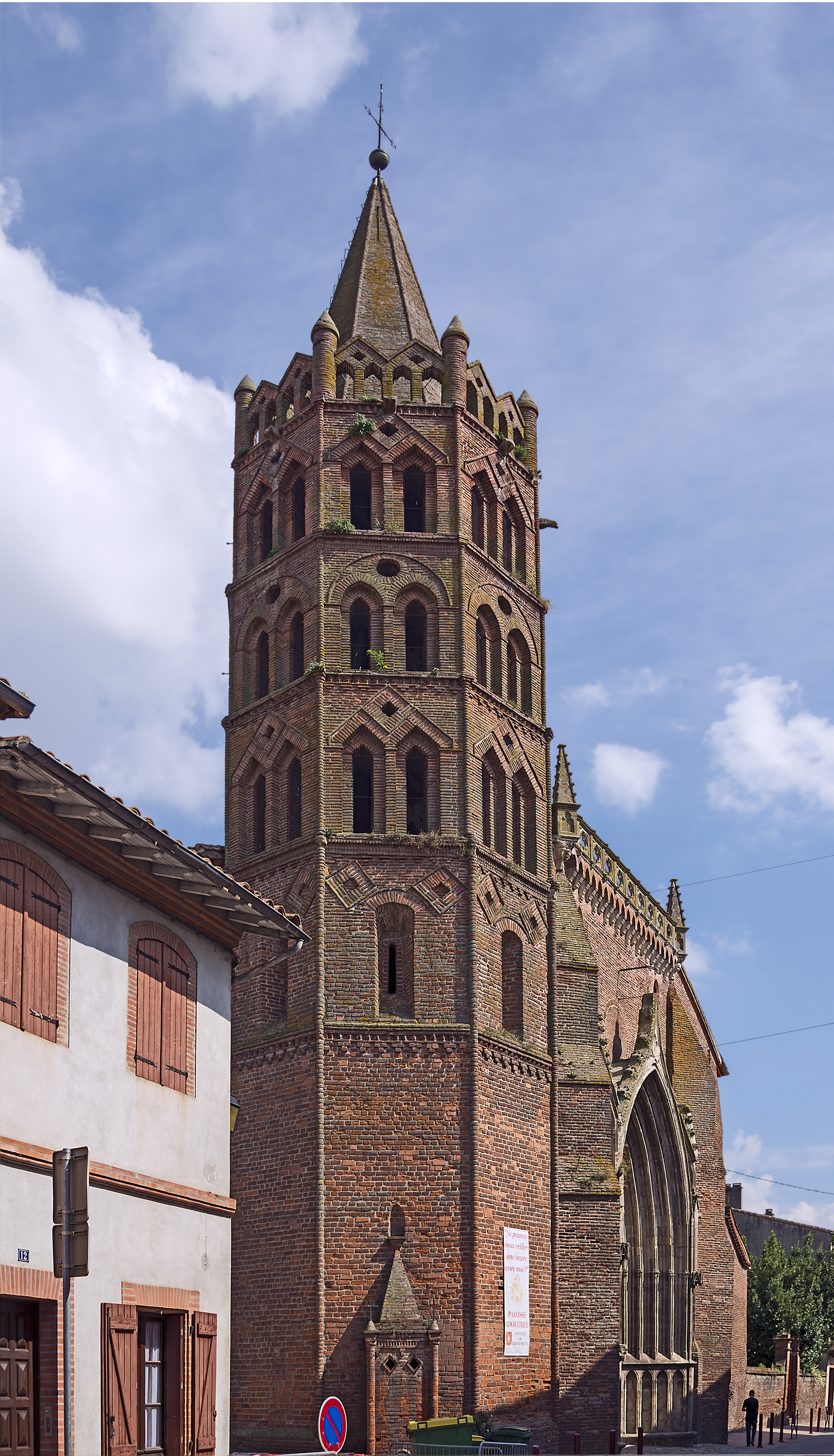 Grenade, Haute-Garonne, France. Bell tower of the church ’’Église Notre-Dame de l'Assomption””.